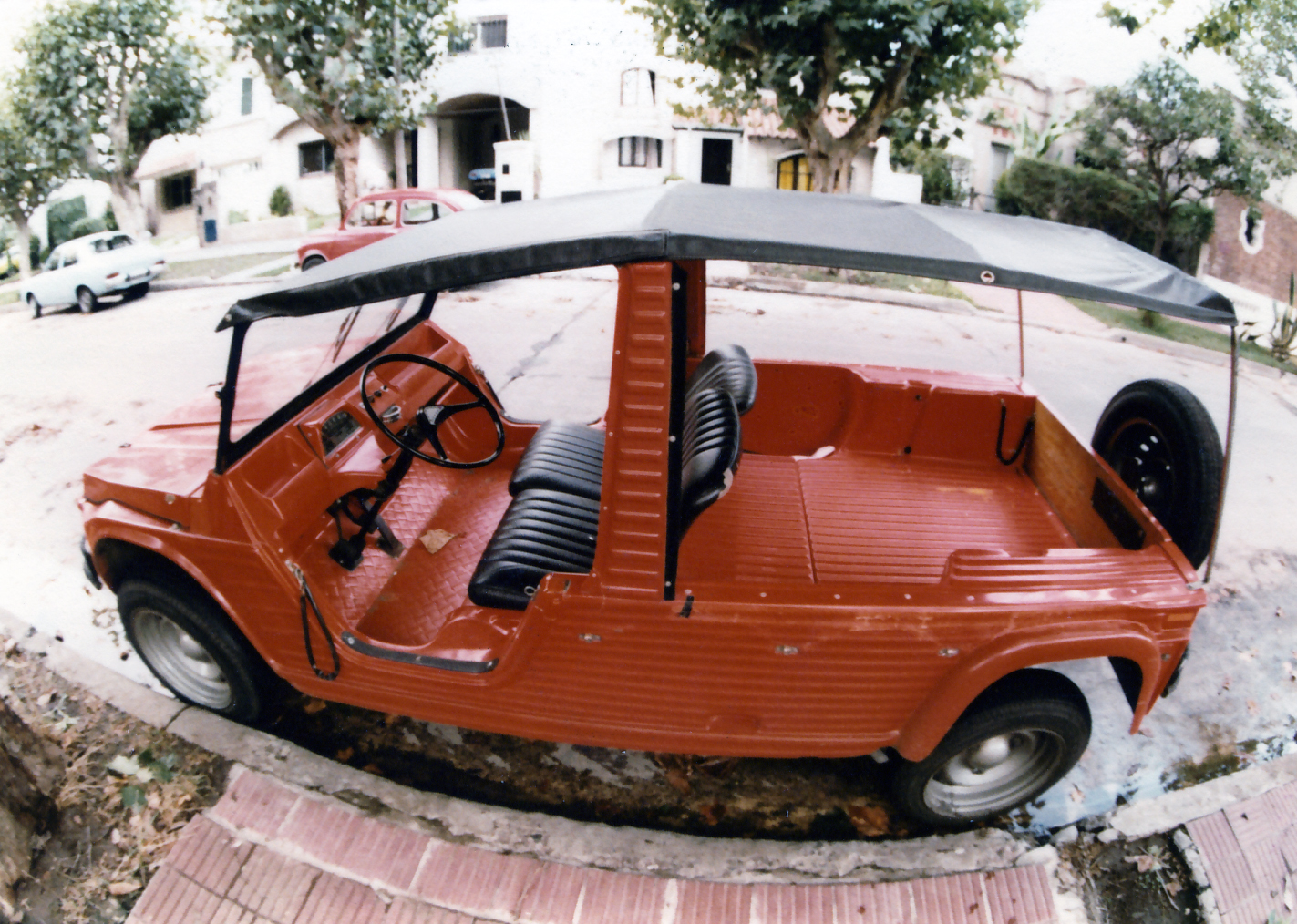 This is a Citroën Mehari, built in Uruguay, sold in Argentina under the name of Naranja Mecanica